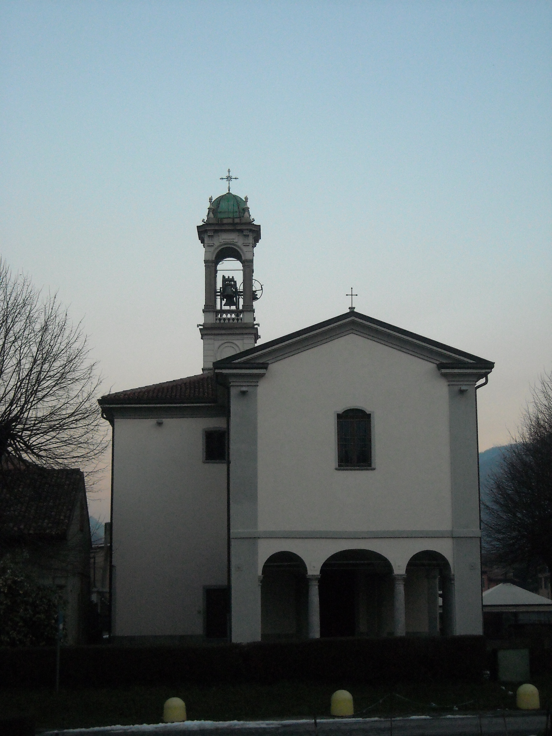 Oratory of St. Leonard, Brivio, Lecco, Italy